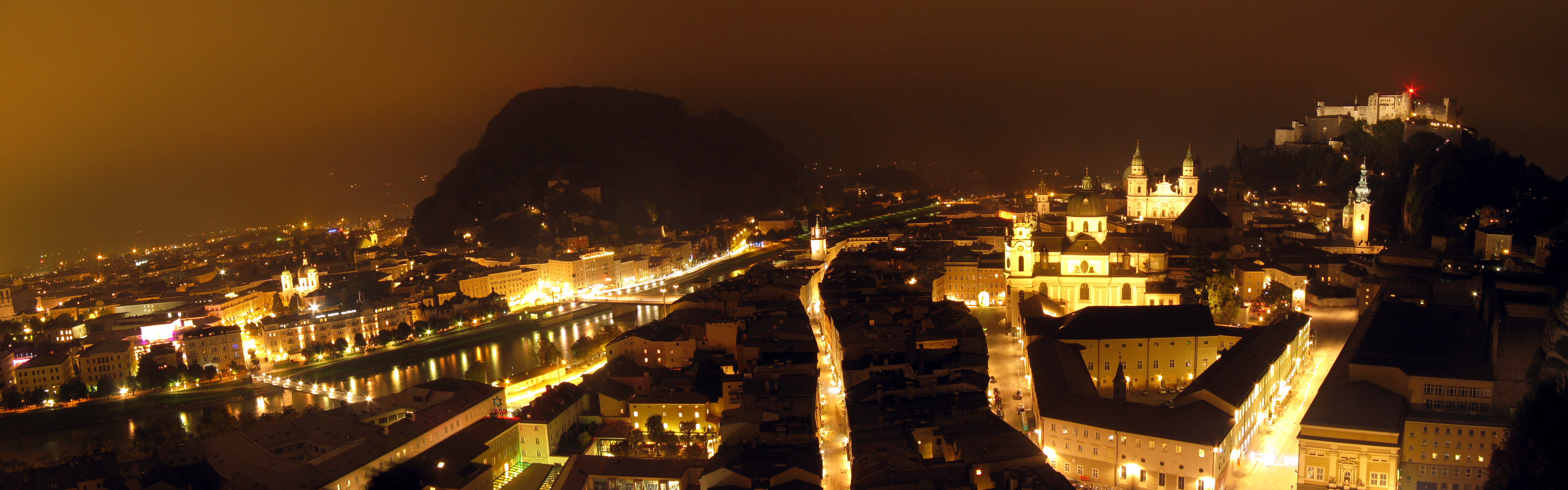 A night time long exposure panorama of the Austrian city of Salzburg.